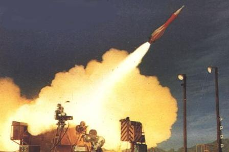 Test launch of MIM-46 "Mauler" surface-to-air missile.